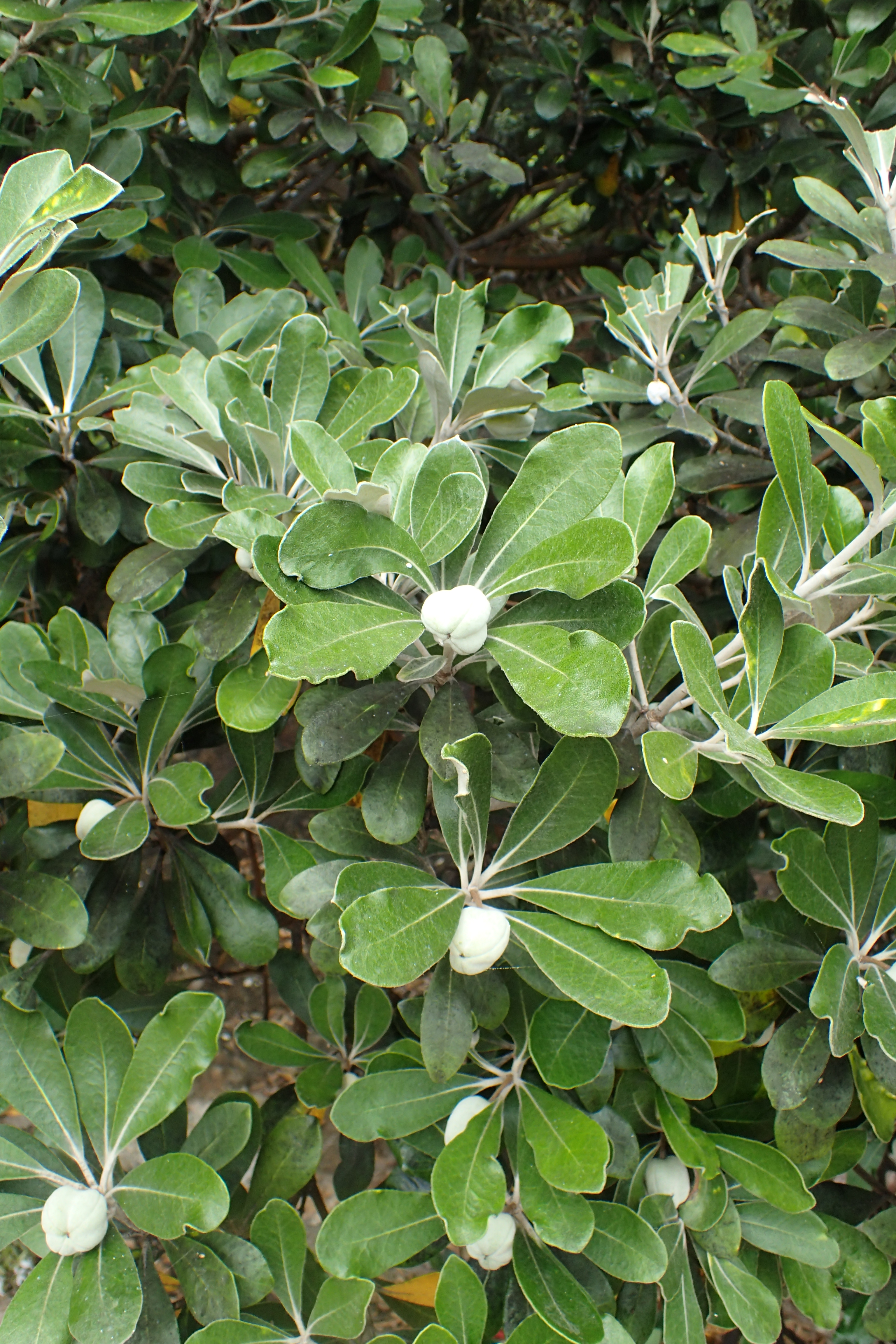 Pittosporum crassifolium in Hot Water Beach by Hahei, Coromandel (New Zealand)